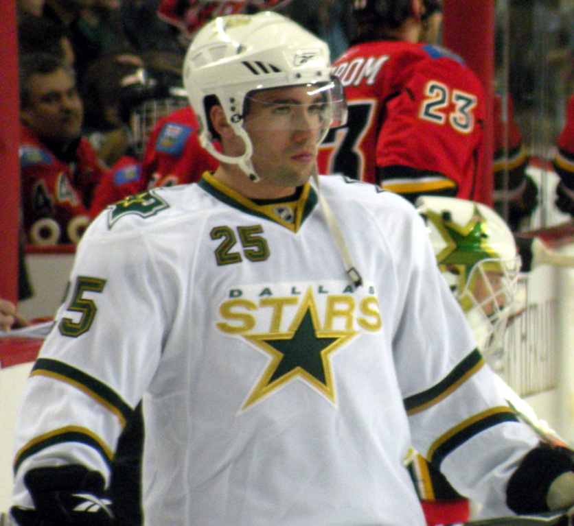 Dallas Stars forward Chris Conner during warm-up prior to a National Hockey League game against the Calgary Flames, in Calgary.